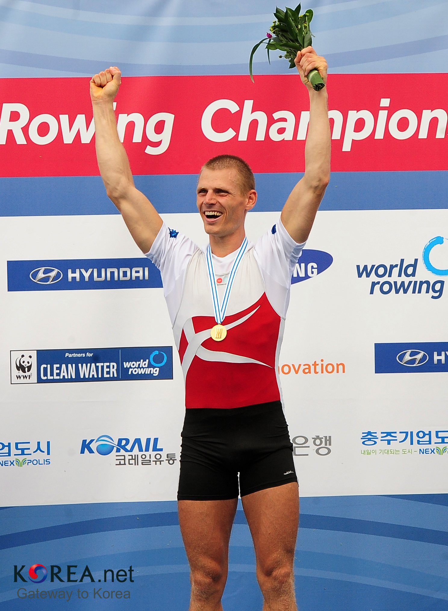 2013 Chungju World Rowing Championships